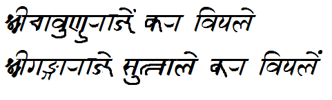 inscription at shravanabelagola, karnataka